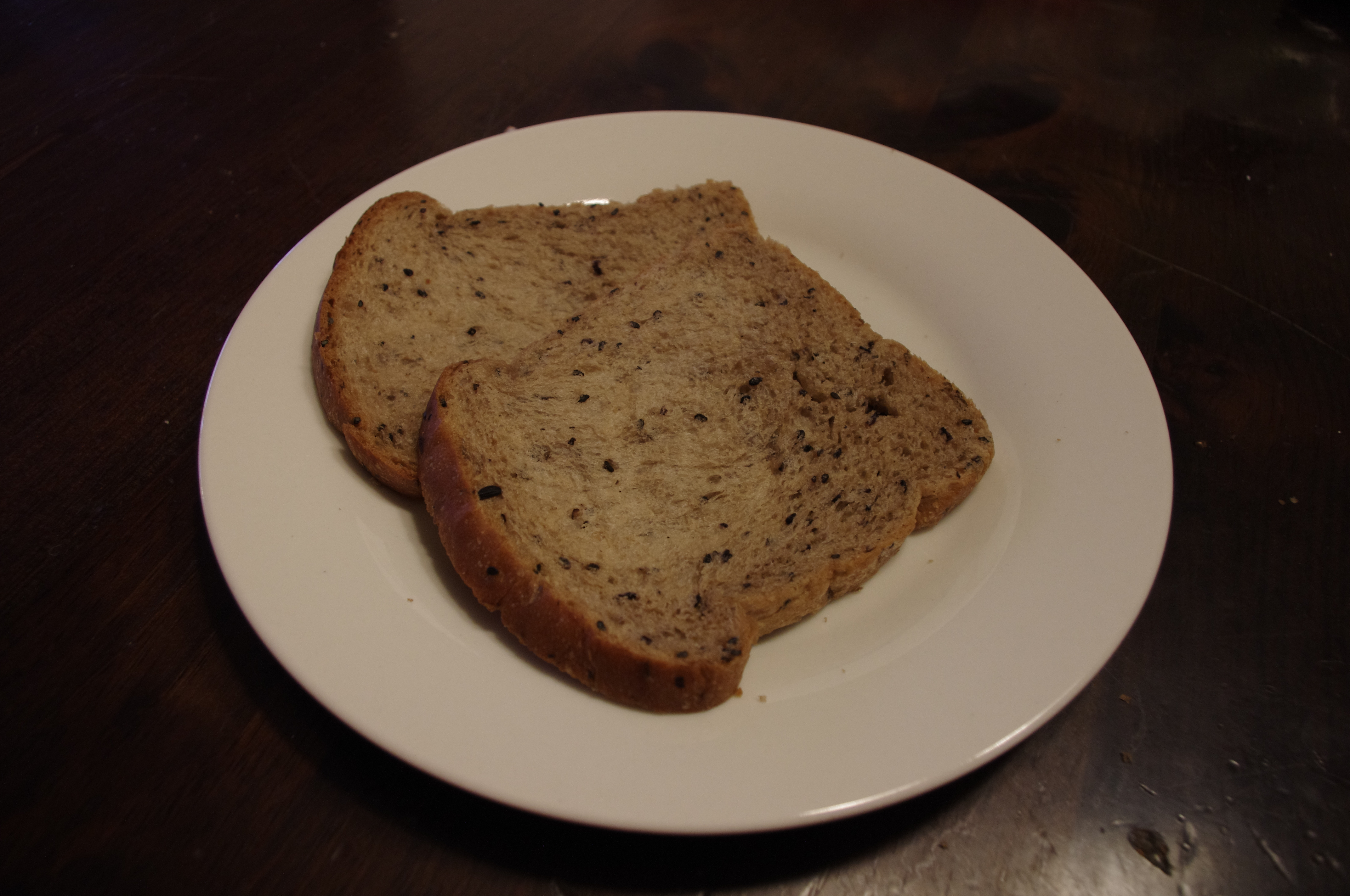 Multigrain Japanese Yudane (湯種) bread, written here as "Utane"